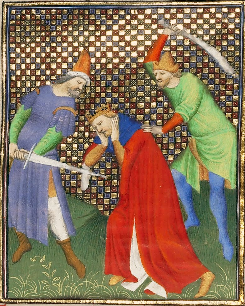 See original description